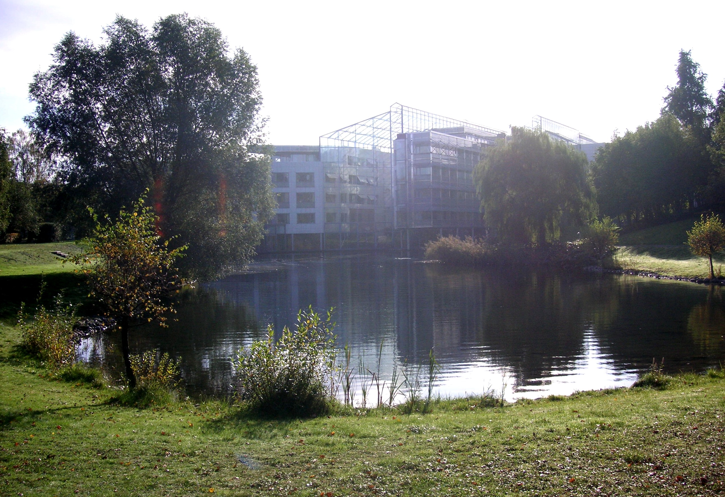 Scandinavian Airlines head office in Frösundavik, Solna, Stockholm